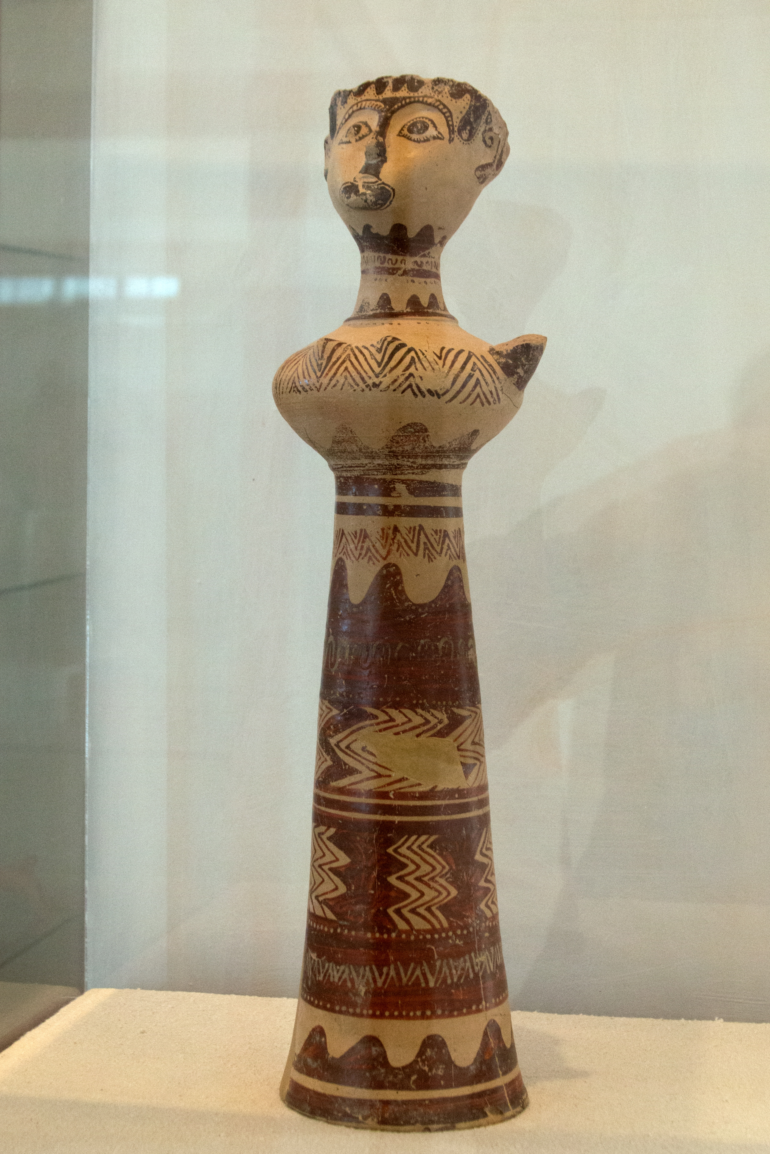 The Lady of Phylakopi. Wheel-made female figurine of a goddess or priestess from West Shrine in Phylakopi. Height 45 cm. Late Helladic III A period, Phylakopi III, probably 14th century BC. Archaeological Museum of Milos, Cat. no. B 655. Discovered by Colin Renfrew, Excavations 1974-77.